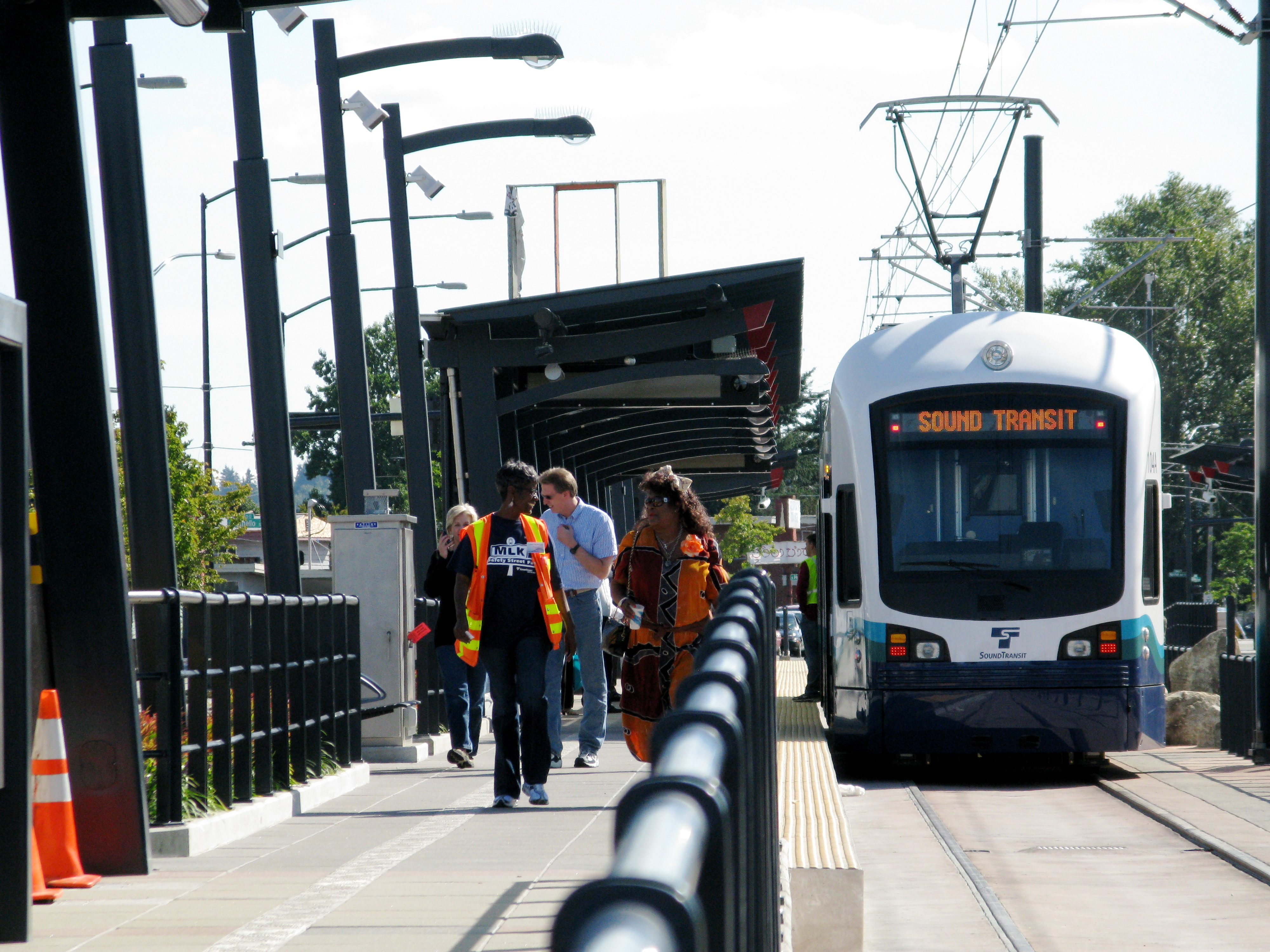 Link arrives at Othello Station in Seattle, Washington State, USA.